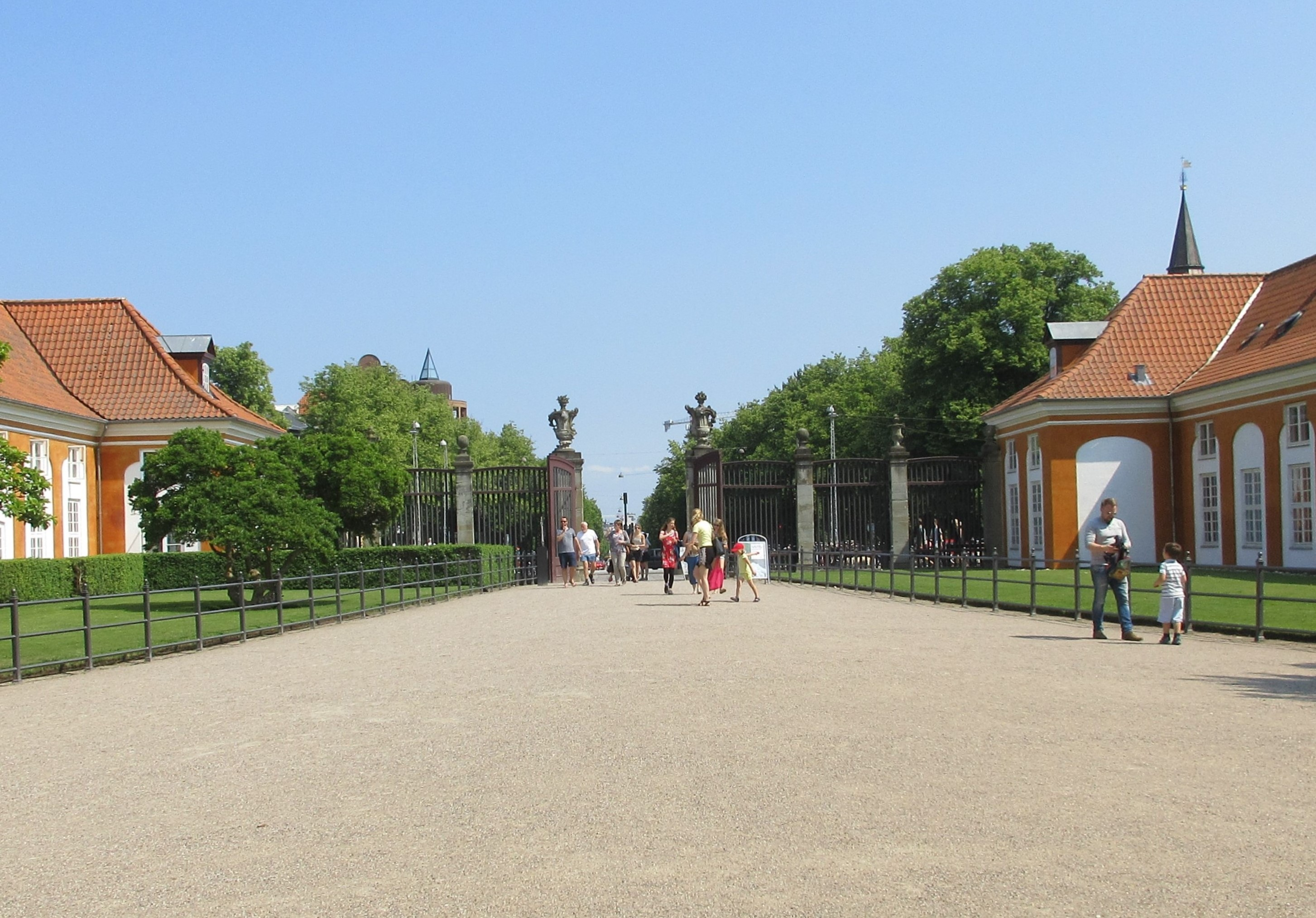 Inside view of the entrance to Frederiksberg Have in Copenhagen, Denmark